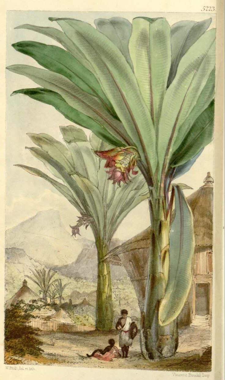 Painting of Ensete ventricosum in an Abbysinian setting